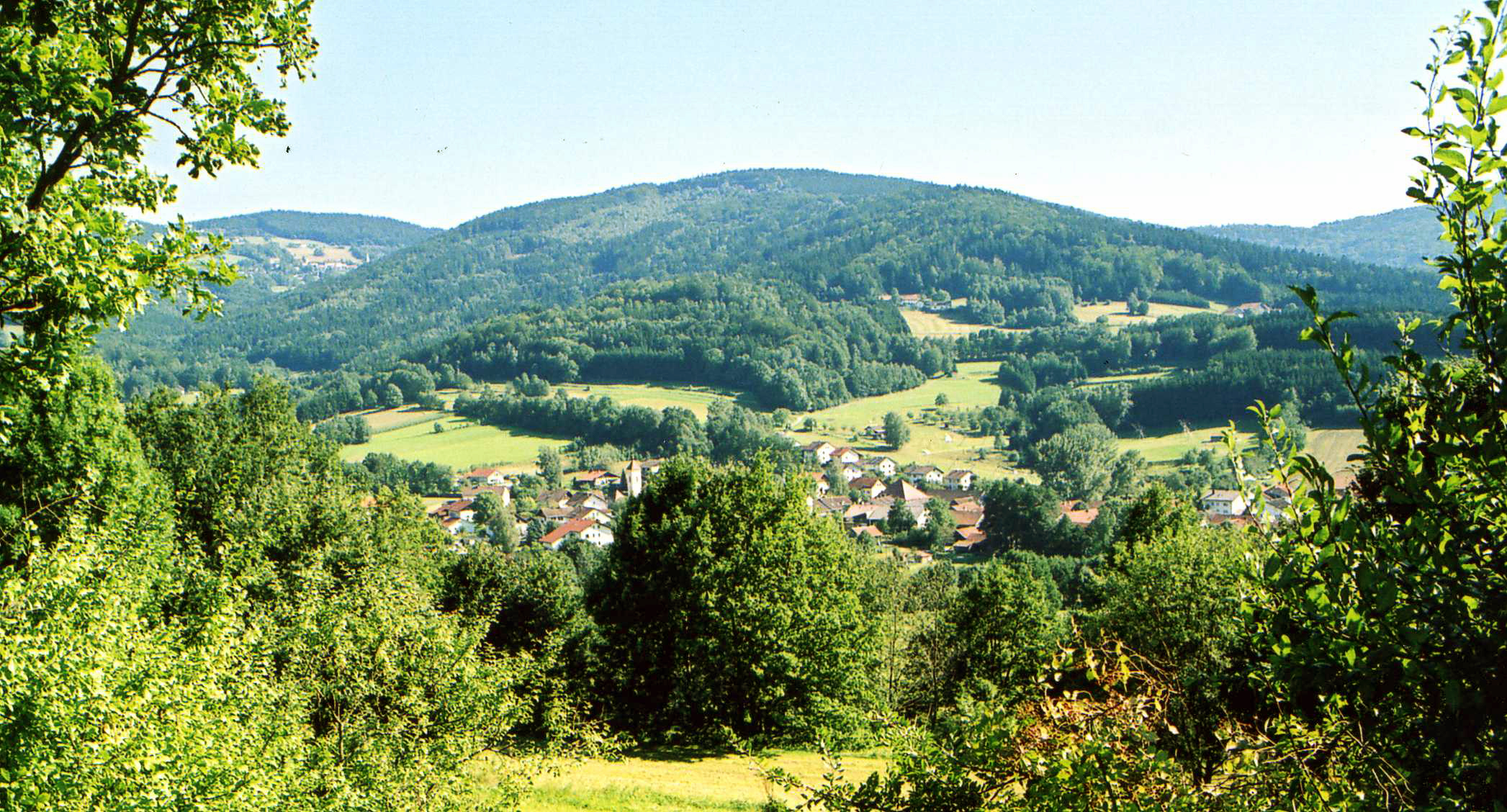 Zoom to Kirchberg im Wald, Bayerischer Wald near Regen.